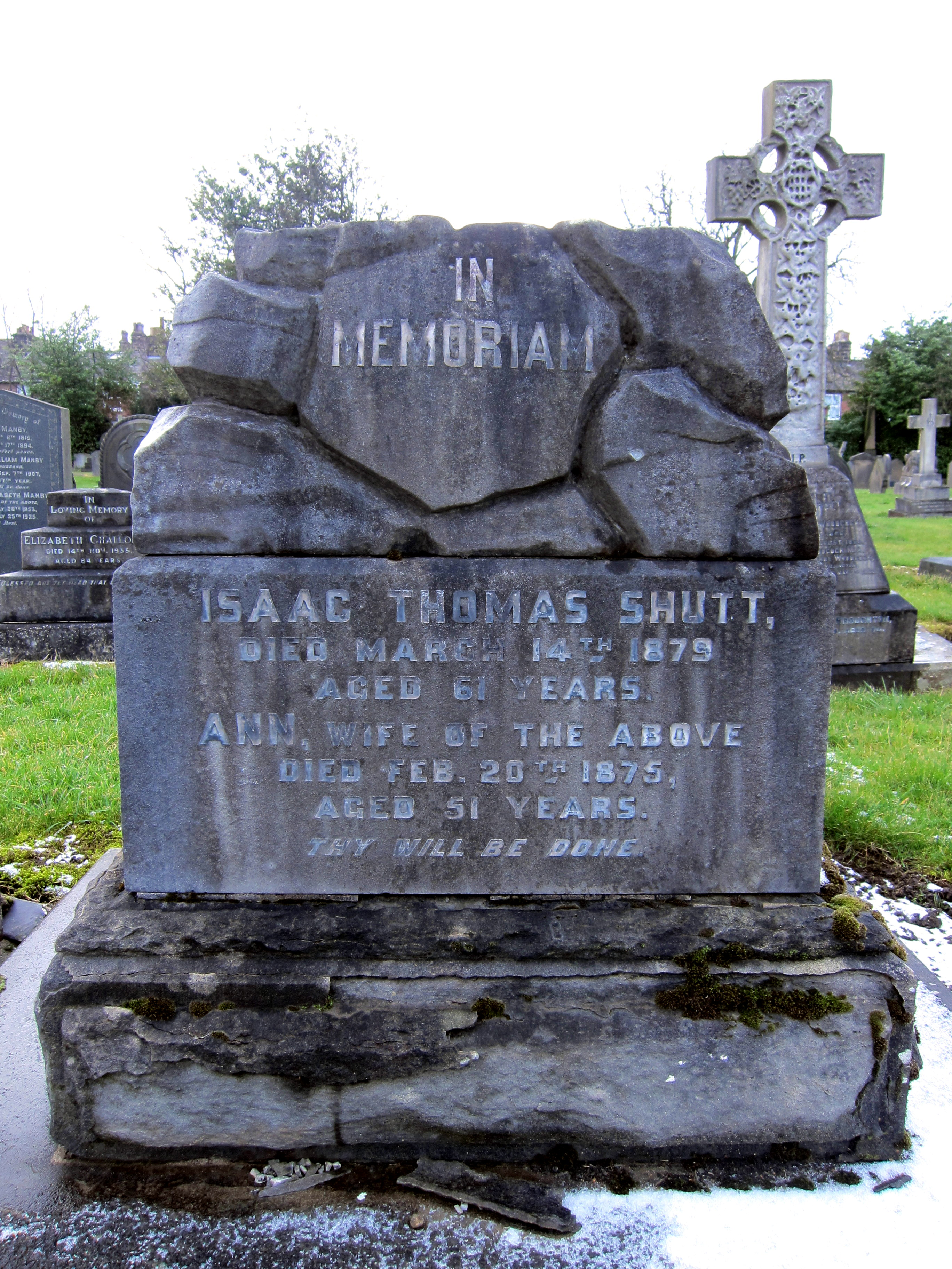 Gravestone of architect Isaac Thomas Shutt (1818-1879), located in section D, plot 324 of Grove Road Cemetery Harrogate, North Yorkshire, England. Shutt was the owner of the Swan Hotel from 1849 to 1879, and he designed the Pump Room, Harrogate in 1842 when he was 24 years old.